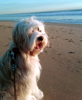 whalen, a tibetan terrier